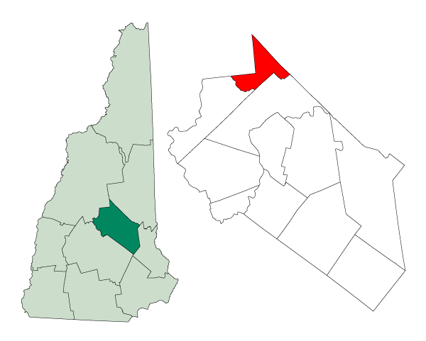 Map of a municipality in Belknap County, New Hampshire